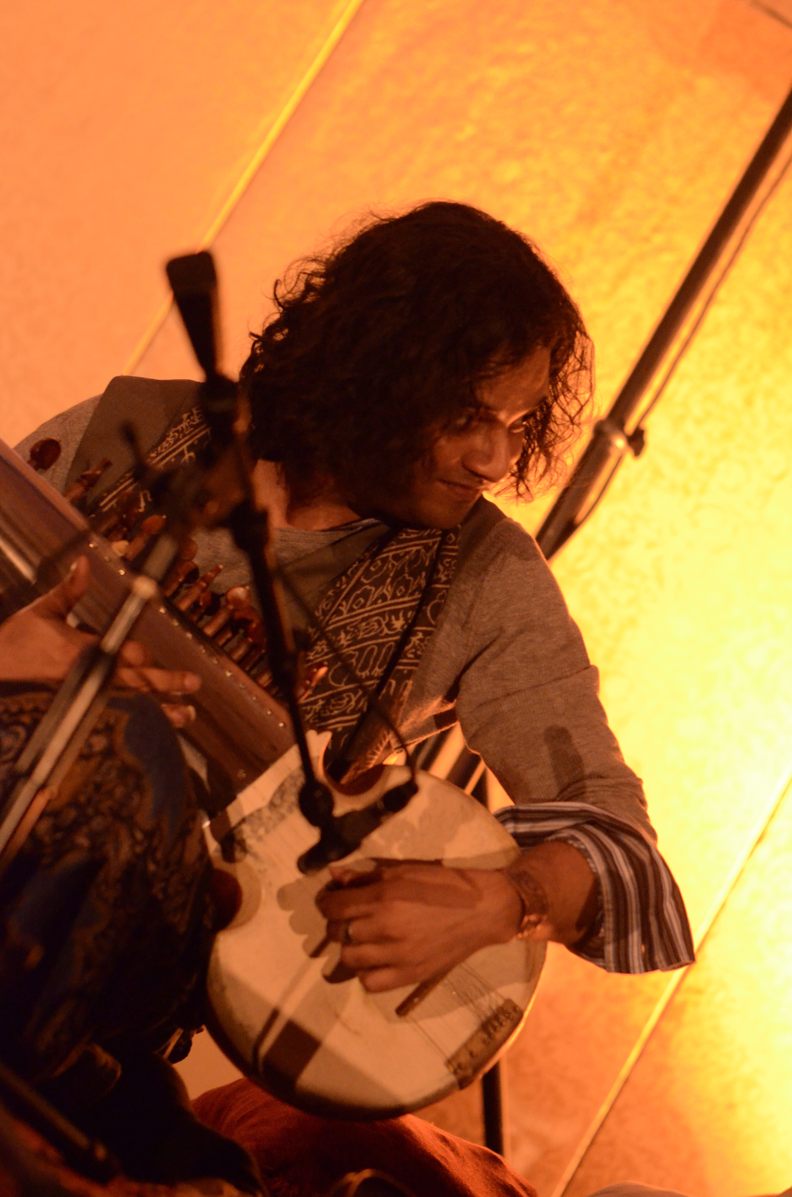 Shobhakar playing the sarode.